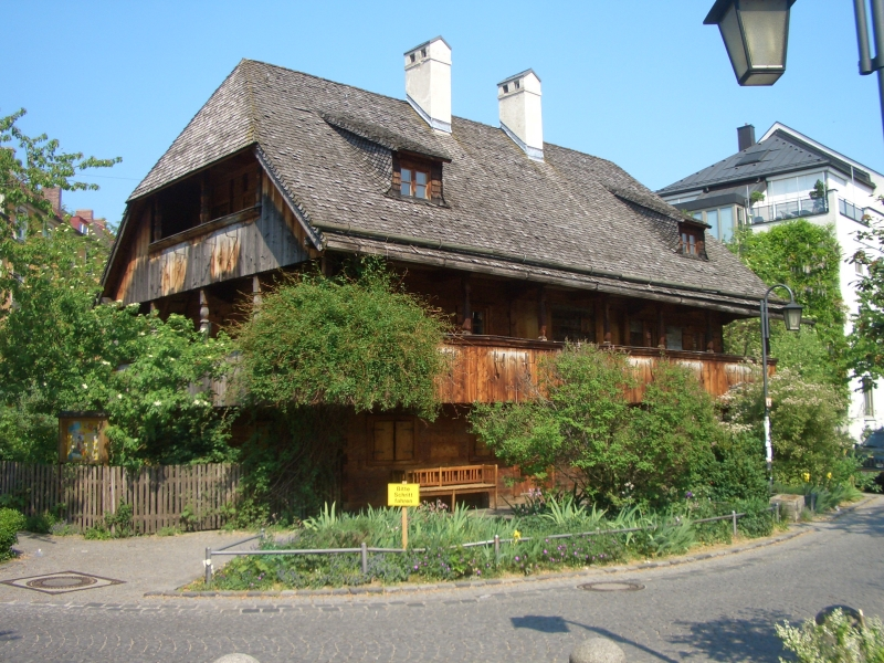 The "Kriechbaumhof" in Haidhausen, München.